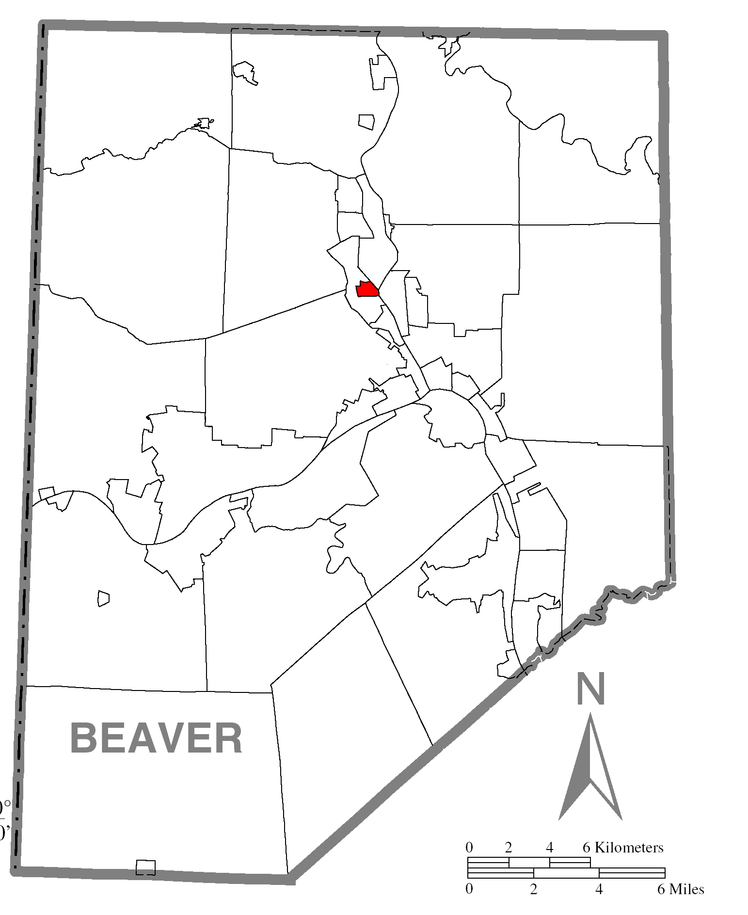 A map of Beaver County showing Patterson Heights, Pennsylvania (alternate) highlighted on the map.